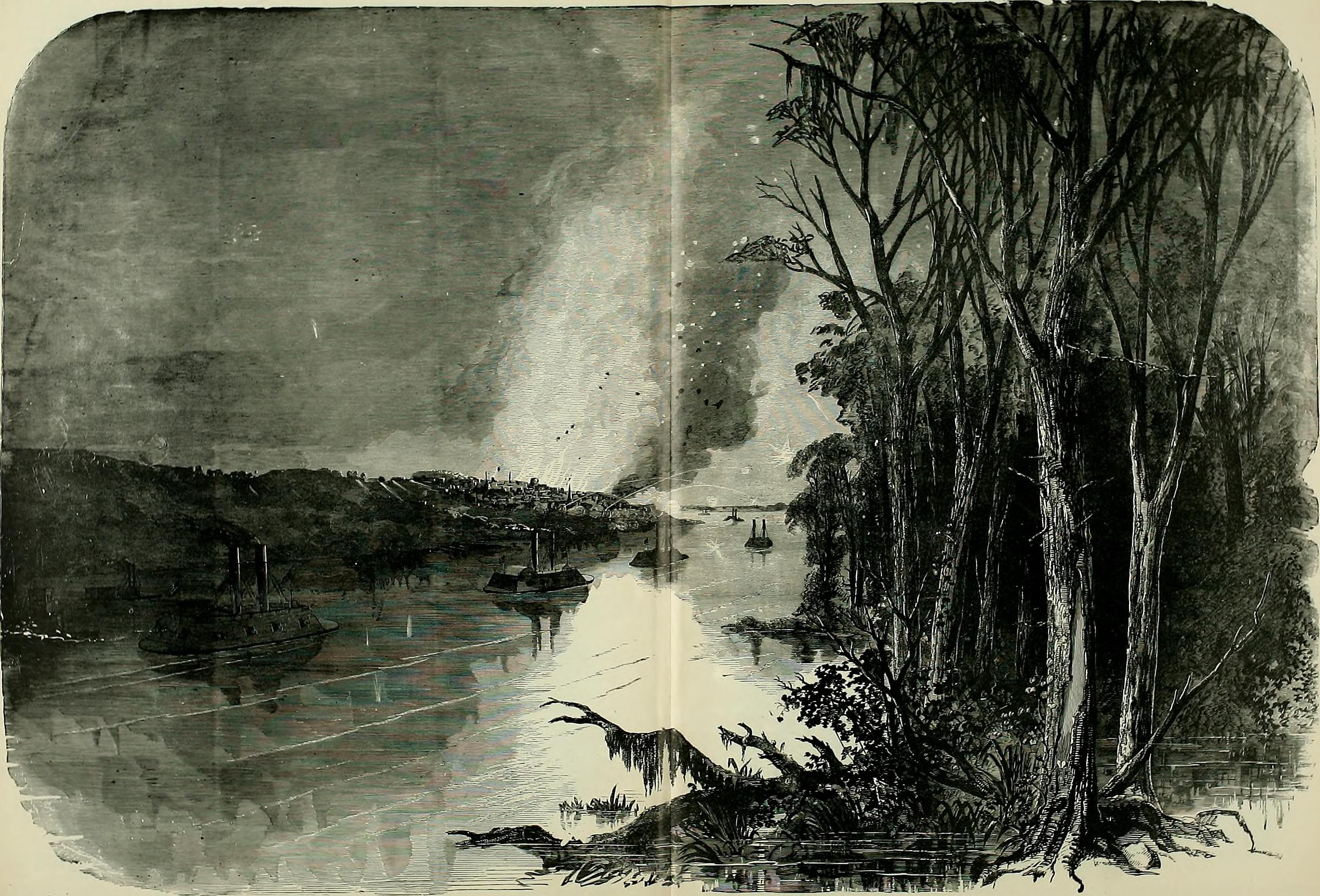 Title: The soldier in our Civil War : a pictorial history of the conflict, 1861-1865, illustrating the valor of the soldier as displayed on the battle-field, from sketches drawn by Forbes, Waud, Taylor, Beard, Becker, Lovie, Schell, Crane and numerous other eye-witnesses to the strife Year: 1893 (1890s) Authors: Leslie, Frank, 1821-1880 Mottelay, Paul Fleury, b. 1841, ed Campbell-Copeland, T. (Thomas), ed Beath, Robert B. (Robert Burns), 1839-1914 Vandervoort, Paul. History of the Grand Army of the Republic Avery, I. W. (Isaac Wheeler), 1837-1897. History of the Confederate Veterans' Association Davis, A. P. History of the Sons of Veterans Merrill, Frank P. History of the Sons of Veterans Subjects: United States. Army United States. Navy Confederate States of America. Army Confederate States of America. Navy Grand Army of the Republic United Confederate Veterans Sons of Union Veterans of the Civil War Publisher: New York Atlanta : Stanley Bradley Pub. Co. Text Appearing Before Image: ADMIRAI, PORTEKS FLOTILLA RUNNING PAST THE BATTERIES OP VICKSBURG,, ON THE HLUFF Text Appearing After Image: AUiURAr. PORTERS FLOTILLA RUNNING PAST THE BATTERIES OF VICKSBURC, MIS3., ON THE NIGHT OF THE IKth APRIL. .ISGa.—CONFKDERATES BURNING BBAOONa ON THE BLUFf^TO IJ!!;:CT their FlPi 64 THE SOLDfR FN OUR CIVIL H^AK.